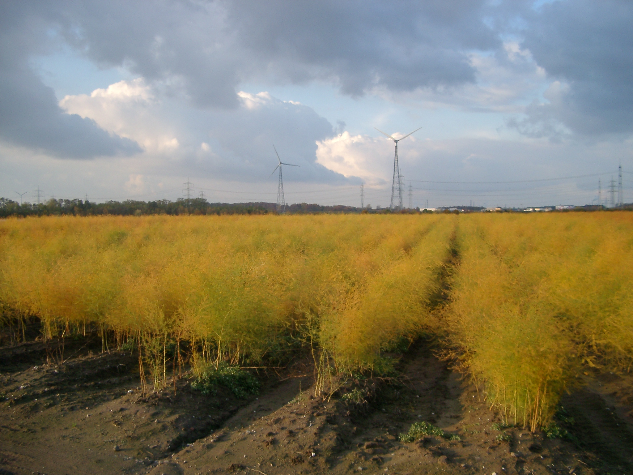 Rhineland between Cologne and Bonn, asparagus field